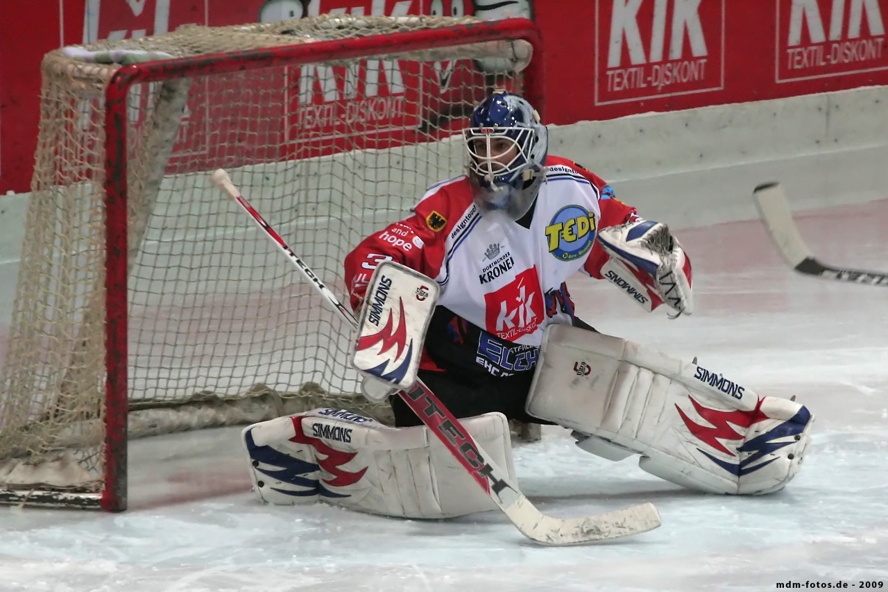 EHC Dortmund - #31 - Torsten Schmitt